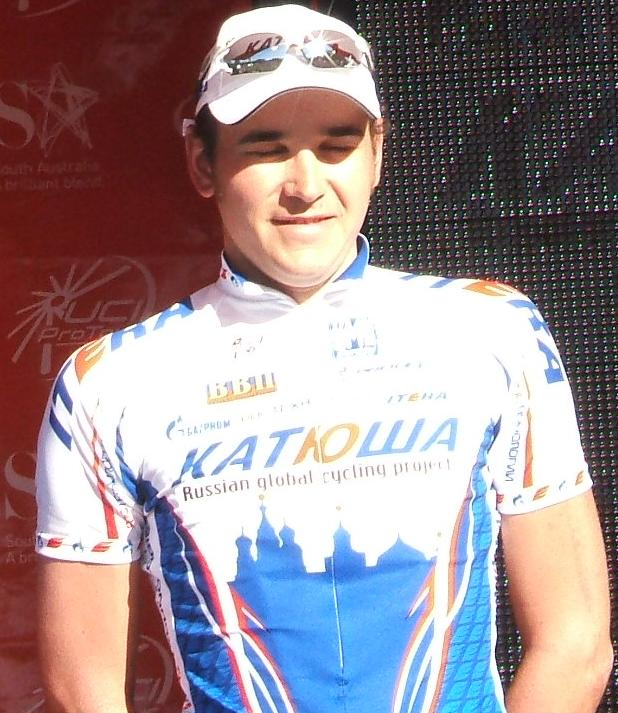 Named cyclist at the en:2009 Tour Down Under team presentation